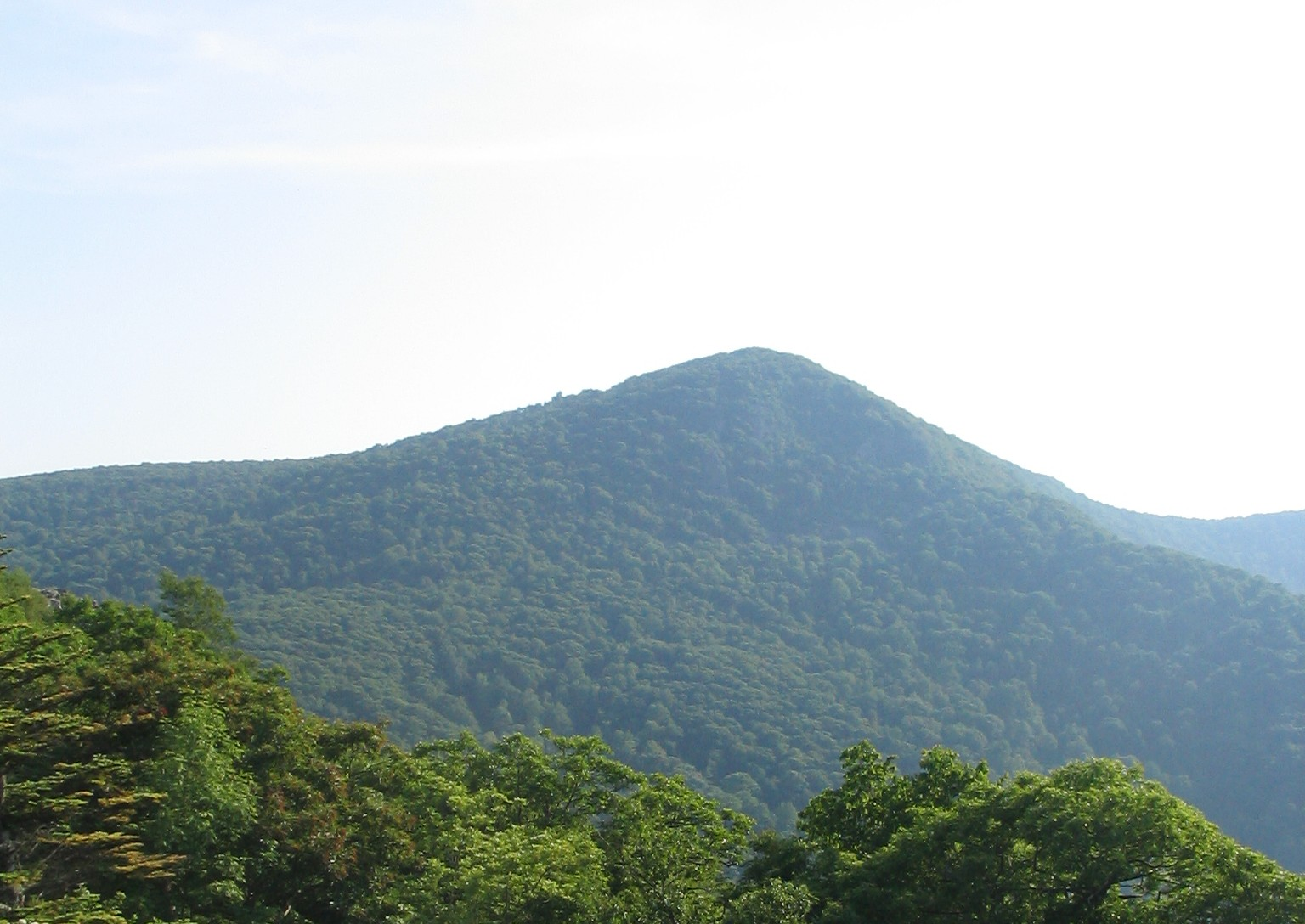 Hawksbill Mountain from Crescent Rock Overlook along Skyline Drive, Shenandoah National Park